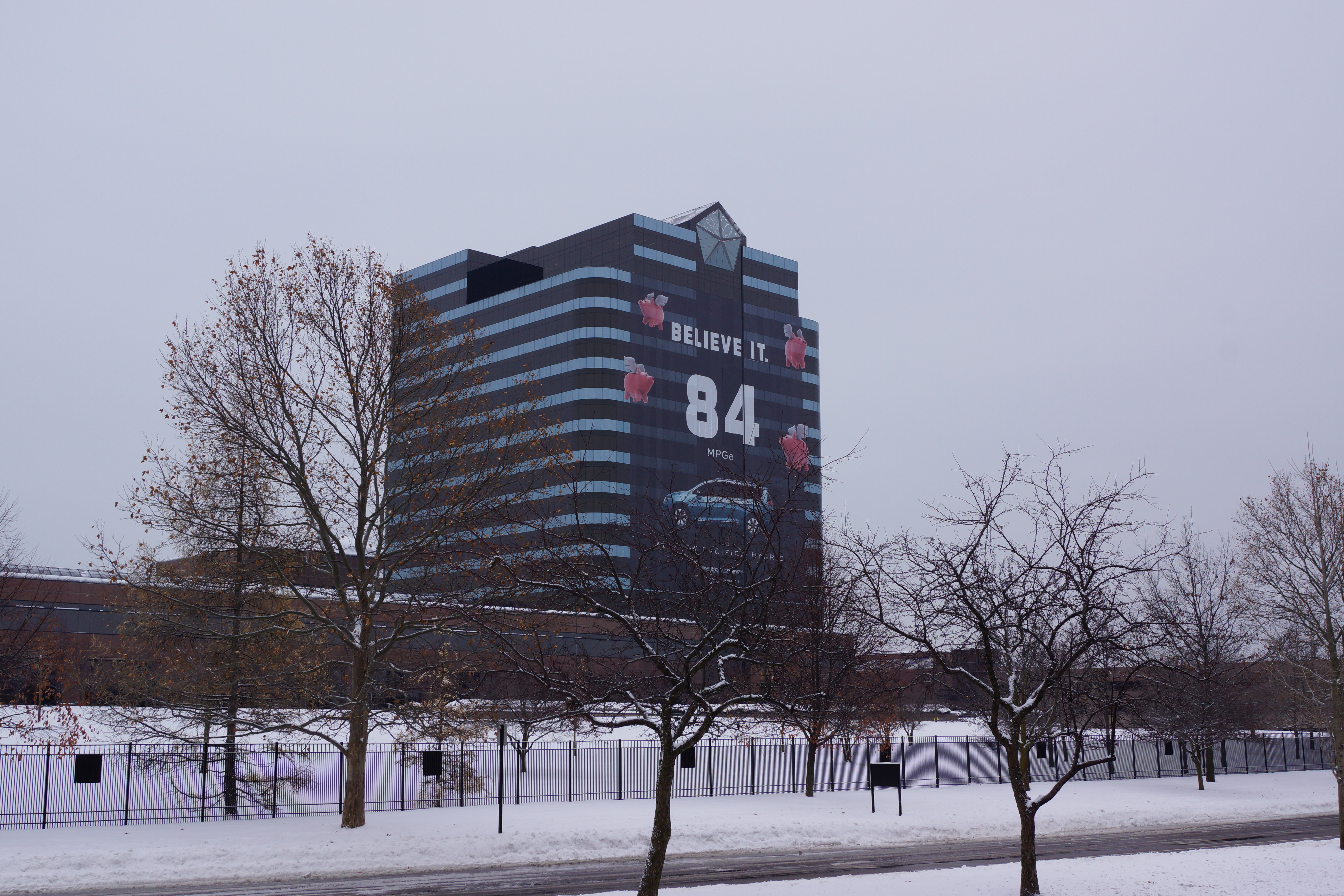 Click here for more car pictures at my Flickr site. Or here for my Car Crazy Tumblr site. Back on November 4th, Hemming's Blog posted an article about the closing of the Walter P. Chrysler Museum . I had missed a couple other opportunities with the WPC Club and others to get into the museum, after it had closed to the public. I did not want to regret missing this last chance to see all of the vehicles before being spread out to other facilities. I trekked from Western Minnesota to Eastern Michigan during Winter Storm Decima. I missed the worst parts of the storm, but still had to endure the aftermath winds, sub zero temperatures and a lake effect snow storm. The trip was difficult, but well worth it. I got to see several Chrysler Corporation concept and show cars that I had only seen pictures of before. There were several clever interactive displays demonstrating various innovations over the years. Since it was the last chance, I duplicated several shots using different camera settings to see what produced better results. I wish I had invested in a strobe light diffuser for all of those indoor pictures. I have not had much experience or success in the past with indoor car images.